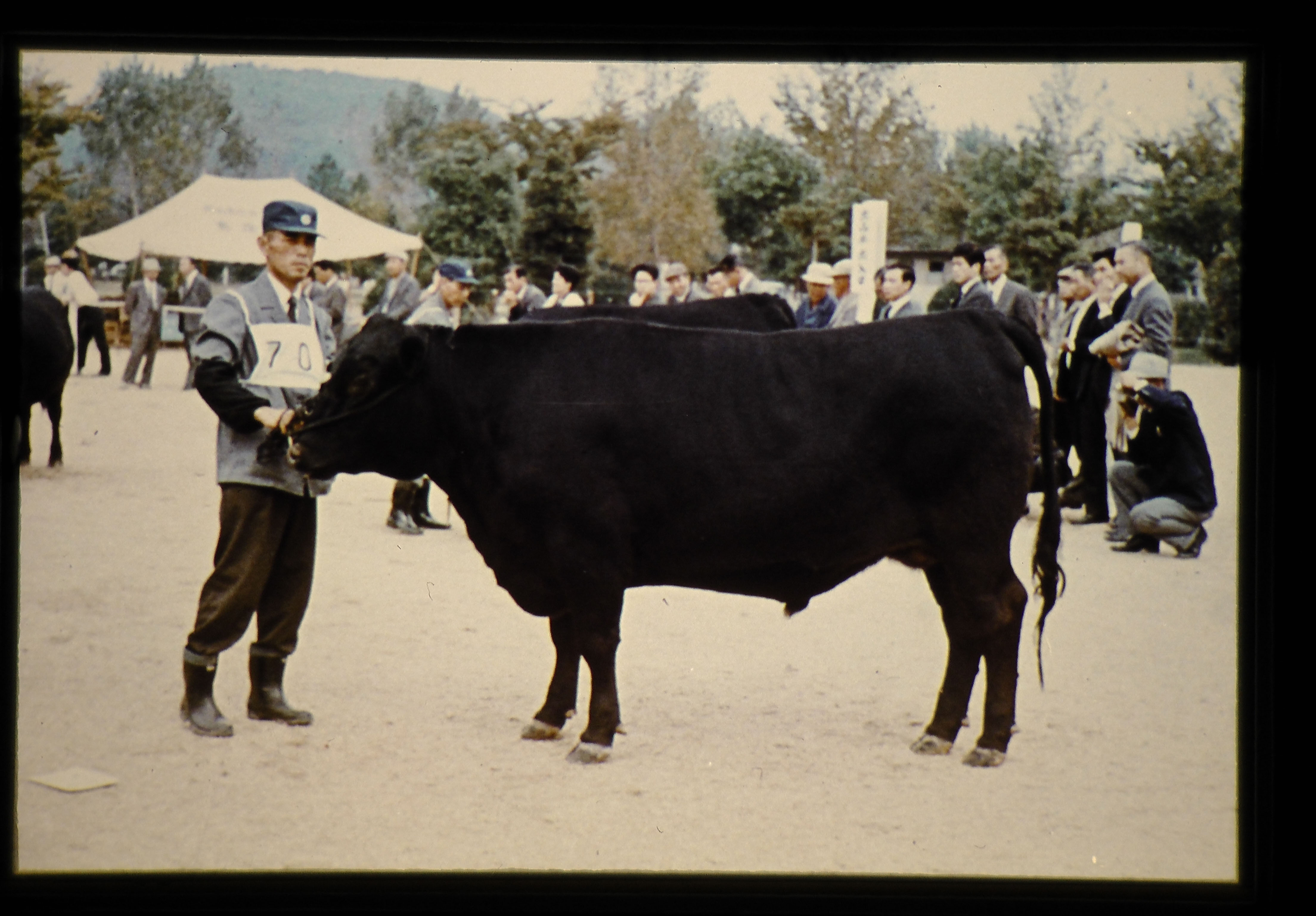 JIRCAS Photo Archive Author: 内藤元男 Description: 毛色は黒単色。鼻鏡、蹄は黒灰色。無角で肩峰はない。中躯は長く、四肢は短く、肉用型をしている。小型で、体重は♂800kg、体高は♂137cm。肉役体型比率は7:3。 Country: 日本 (Japan) Keywords: 日本,山口県,畜産 Slide no. 01-064-05 本コンテンツは、政府標準利用規約第2.0版(クリエイティブ・コモンズ 表示 4.0 国際 ライセンス（CC BY）互換)に基づき、出典を明記の上で利用できます。利用条件の内容については「 JIRCAS Webサイトの利用について 」をご参照ください。 印刷物、調査研究等でご利用頂いた場合は、 お問い合わせフォーム にてお知らせ頂ければ幸いです（任意） This content is provided under the terms and conditions of the JIRCAS Website Terms of Use or Creative Commons Attribution 4.0 International (CC BY 4.0) license.